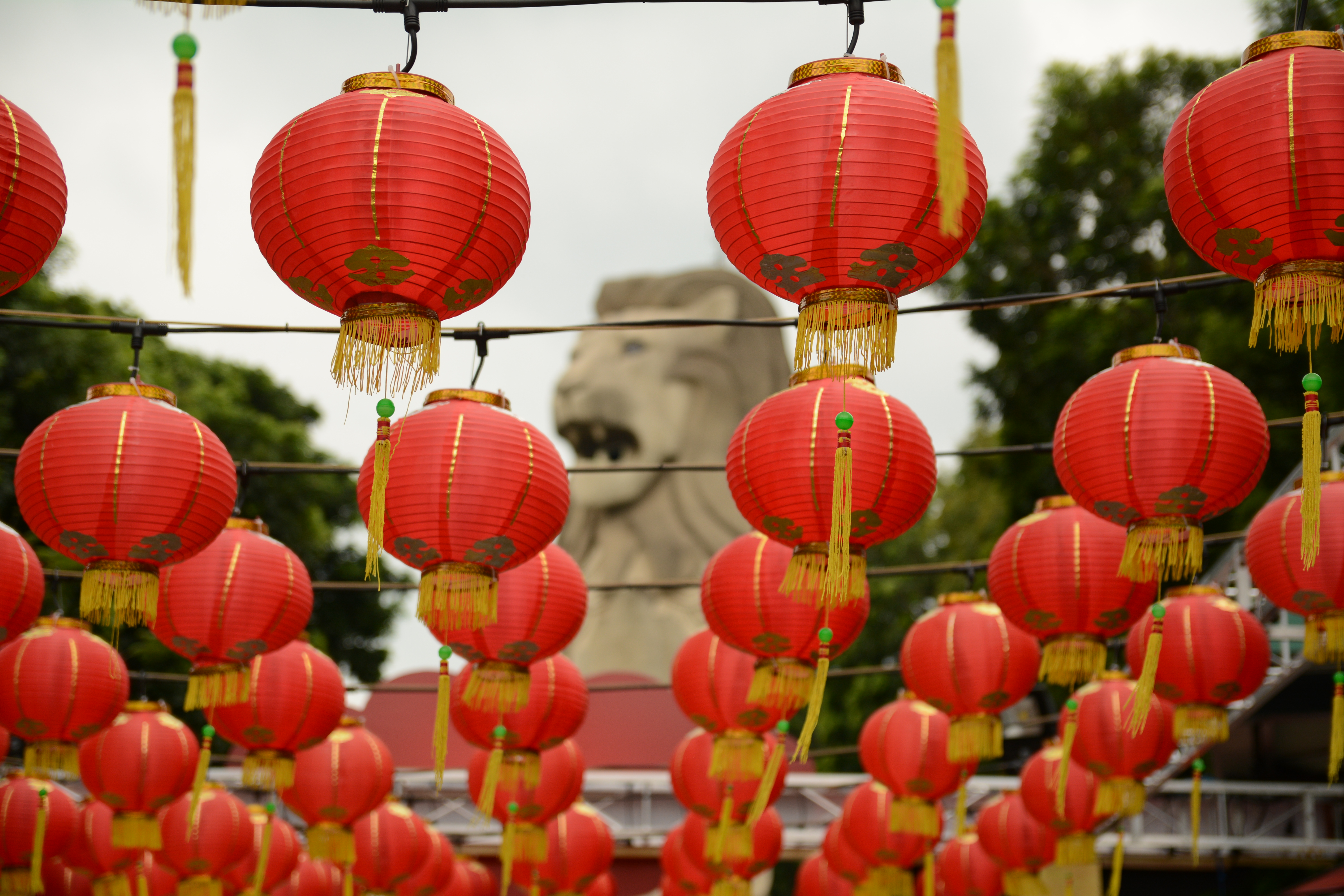 Chinese New Year decorations consisting of red lanterns with the Merlion statue at Sentosa, Singapore, in the background.